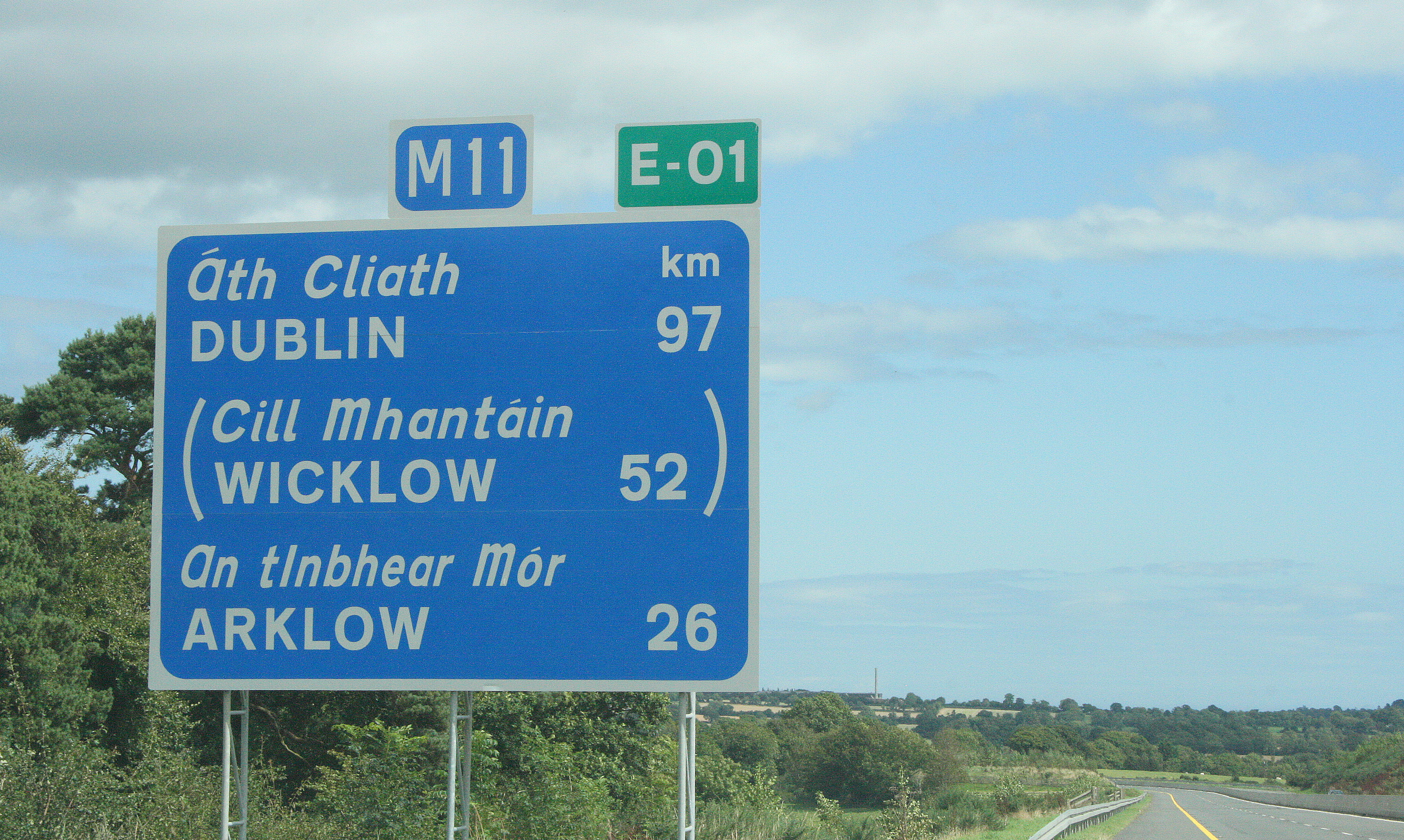 M11 in Wexford, Ireland - part of the E01 euro route.